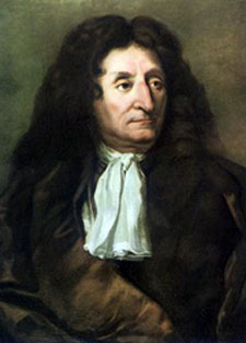 17th-century portrait of Jean de La Fontaine